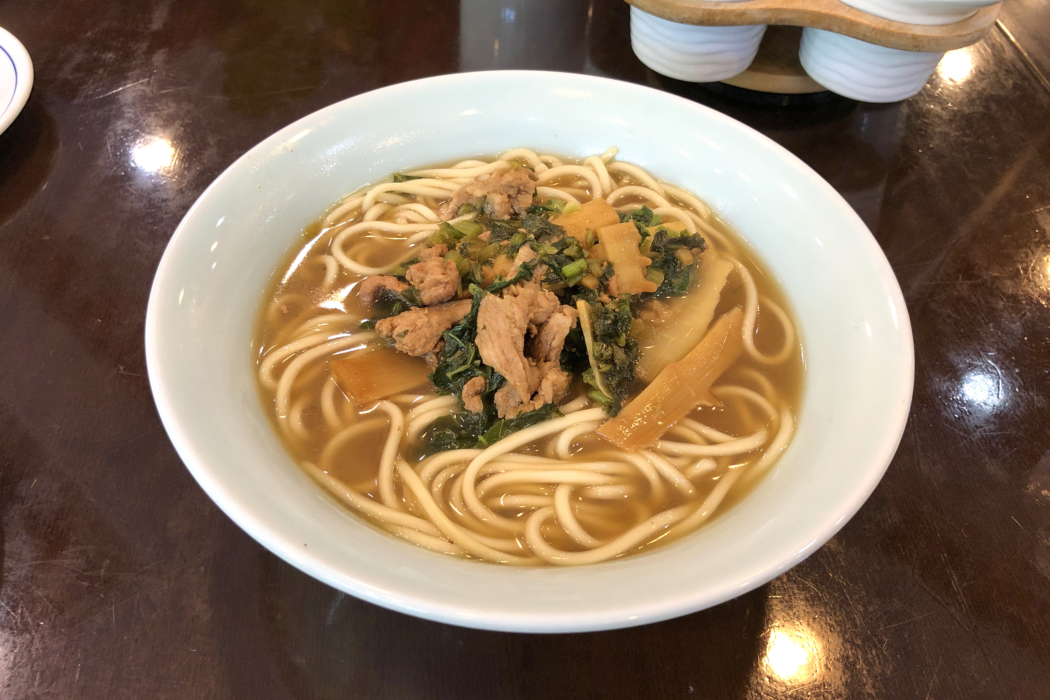 At its origin for CNY 21.00.